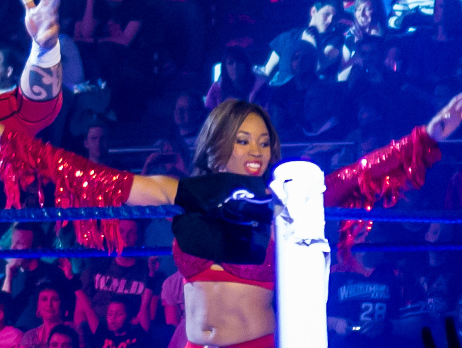 Ariane Andrew as one of Brodus Clay's "funkette" dancers in April 2012. Cropped from original.